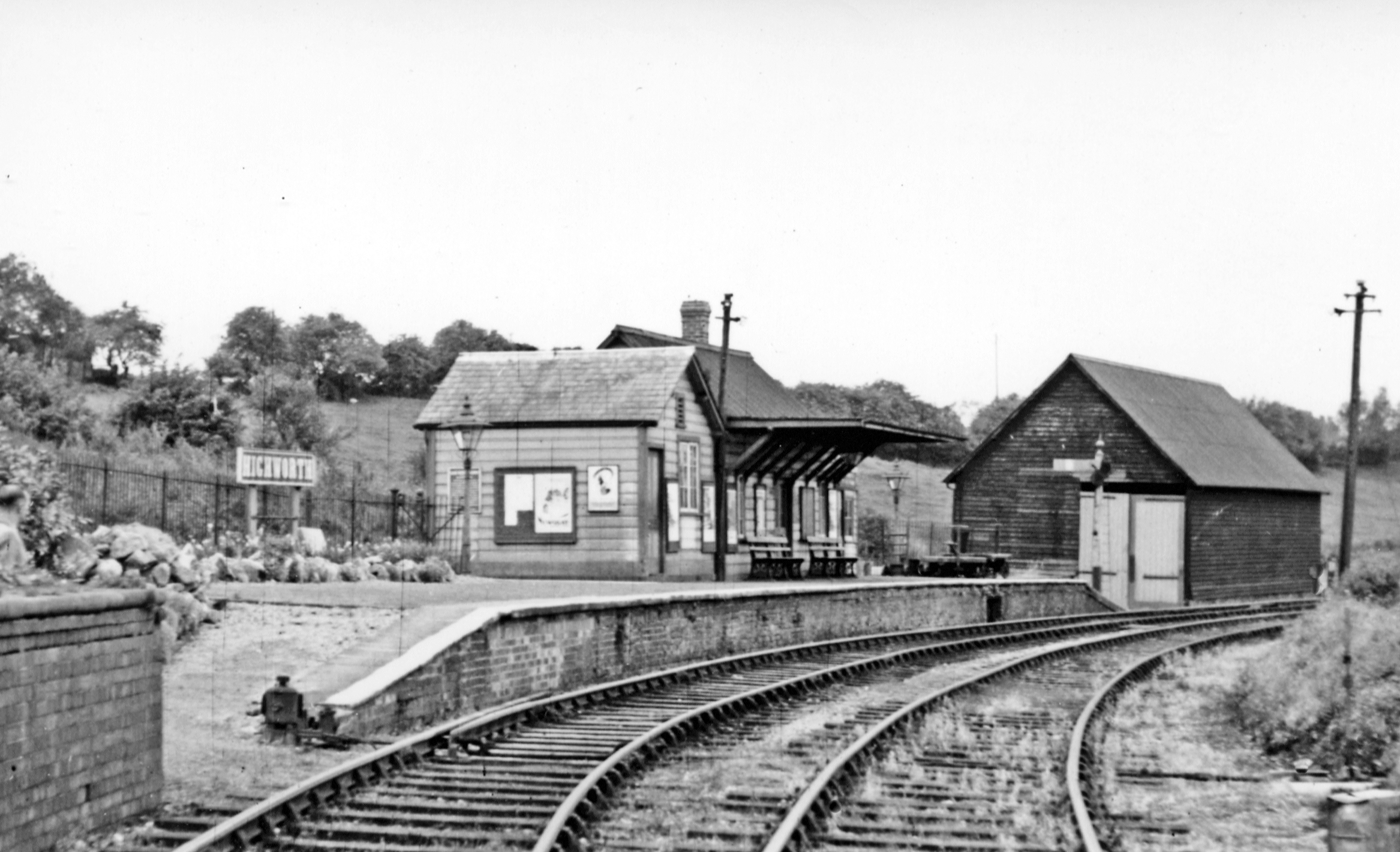 Highworth station, 1950View eastward to the buffer-stops of the terminus of the ex-GWR branch from Swindon (Highworth Junction), closed to passengers 2/3/53, to goods 6/8/62. (See also my SU1992 : Rail Tour at Highworth with a GW Dock Tank).